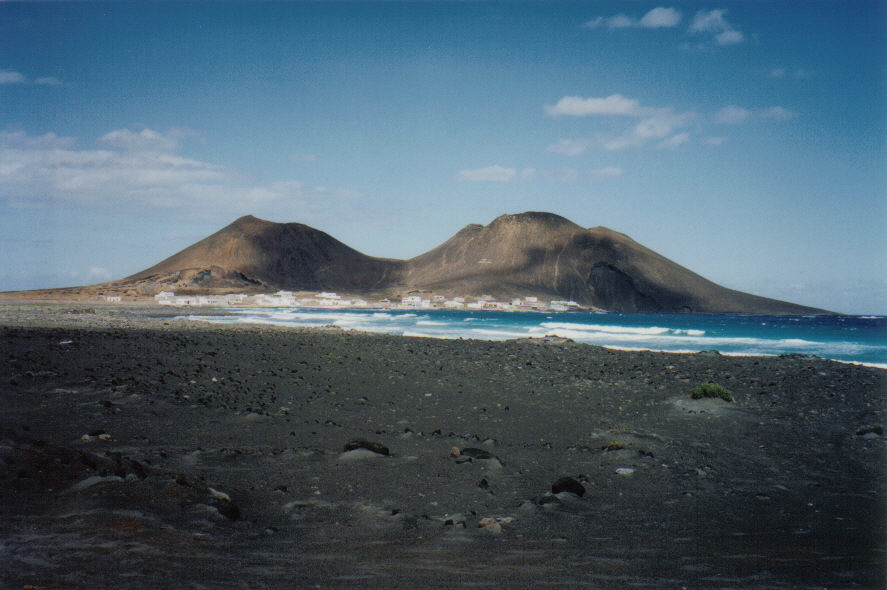 Calhau and the northern volcanoes, São Vicente Island, Cape Verde. Farm-oasis